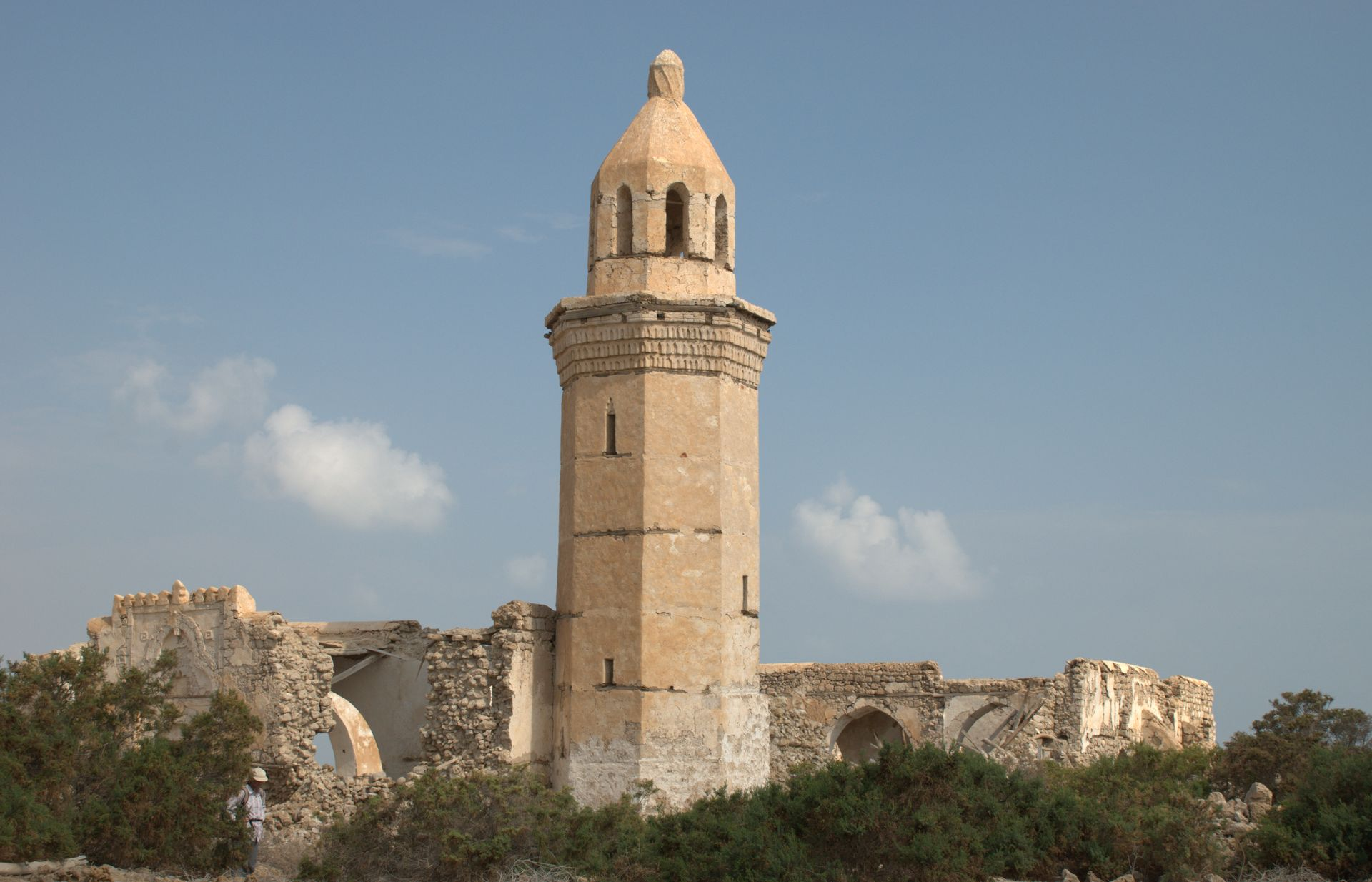 Suakin, Sudan, minaret of Schafai mosque